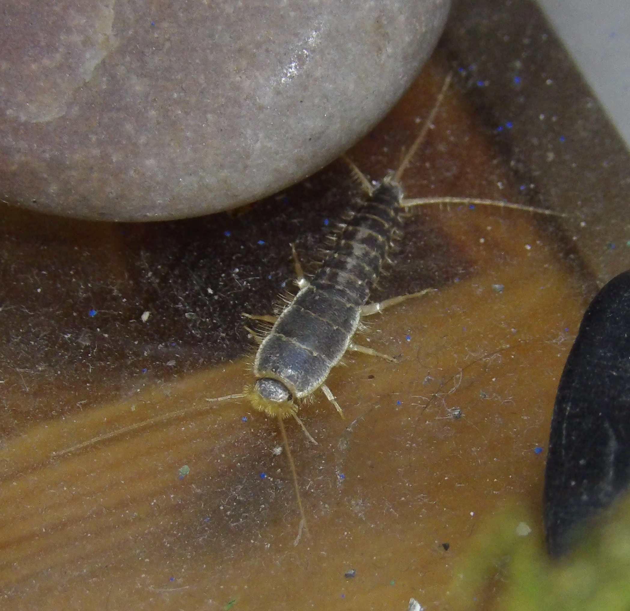 Thermobia domesticae or Ctenolepisma?, at least 3 years old, 150 millimeters. (firebrat).